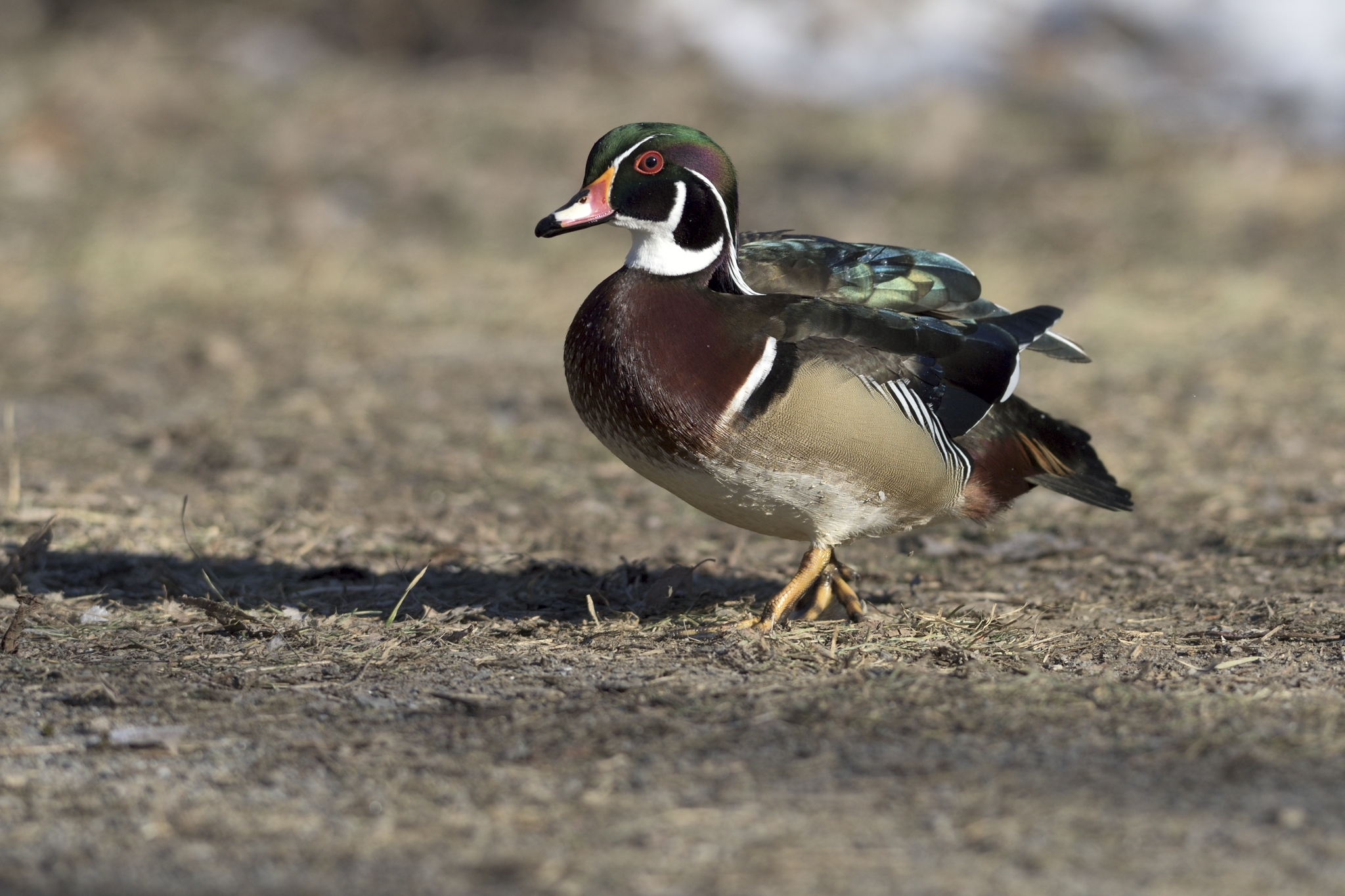 Taken at near the des-milles iles river, southwestern Quebec